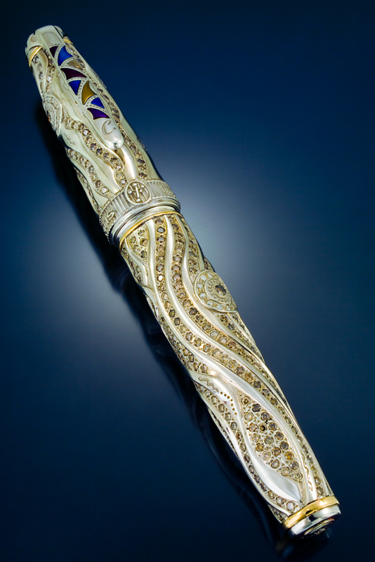 Colours of Australia Pen. Features over 600 Argyle Champagne diamonds. Inspired by the Australian landscape,with hidden Aboriginal symbols and animals within the design